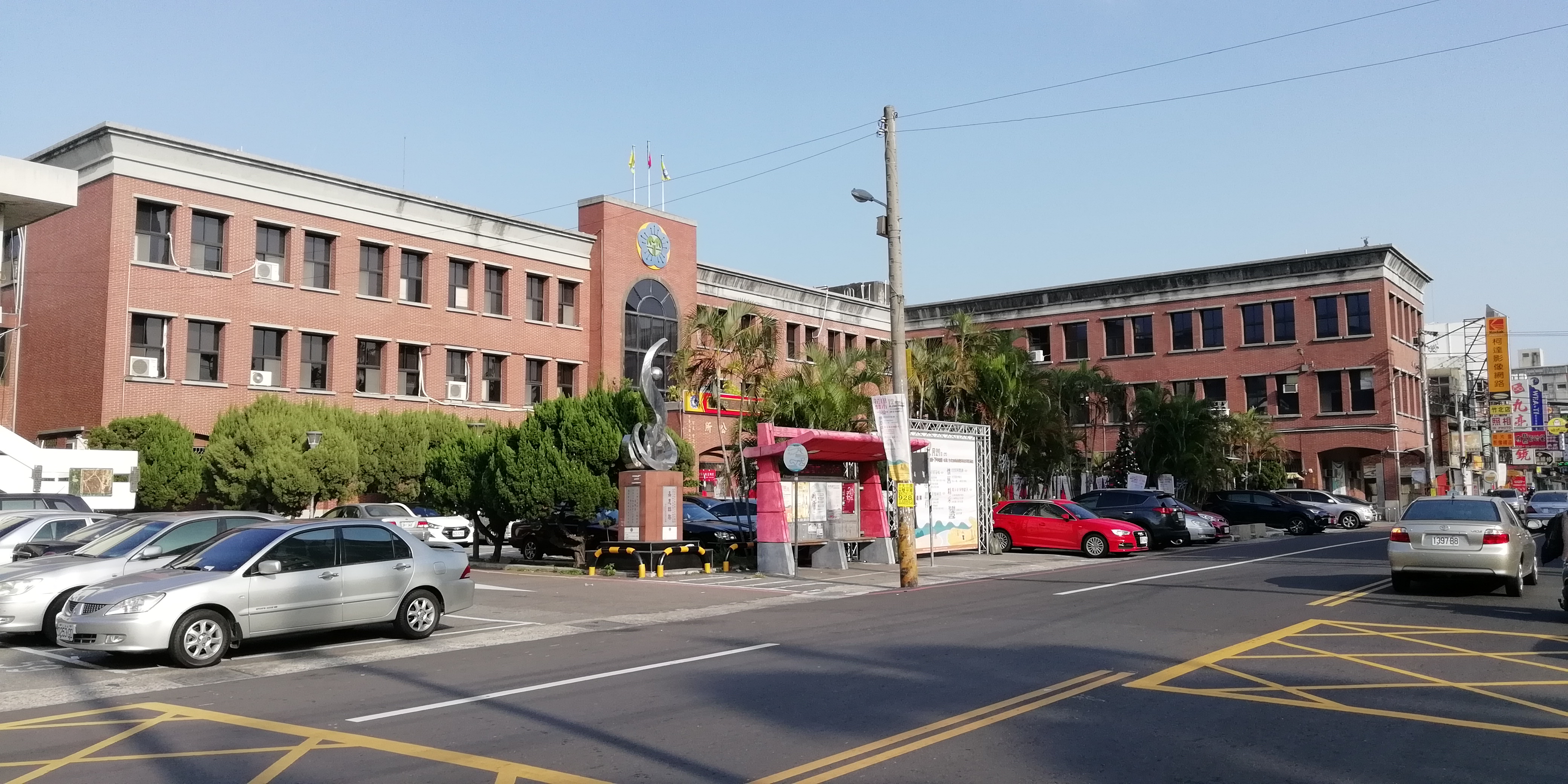 Zhubei City Office, Hsinchu County, Taiwan.